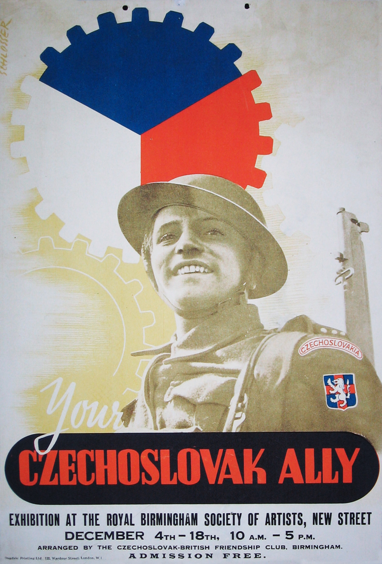 "Your Czechoslovak Ally" -- Propaganda poster of Czechoslovak exile government in London. Poster showing Czechoslovak exile military unit to British. Poster from exhibition of the Slovak National Museum in Bratislava, commemorating the assassination of Heydrich. The portrait of a soldier used as a main theme of the poster is Sergeant Jan Hrubý, one of the participants in the assassination of Heydrich, who died in the fight with German troops in the crypt of the church of St. Cyril and Methodius in Prague on 18th June 1942.